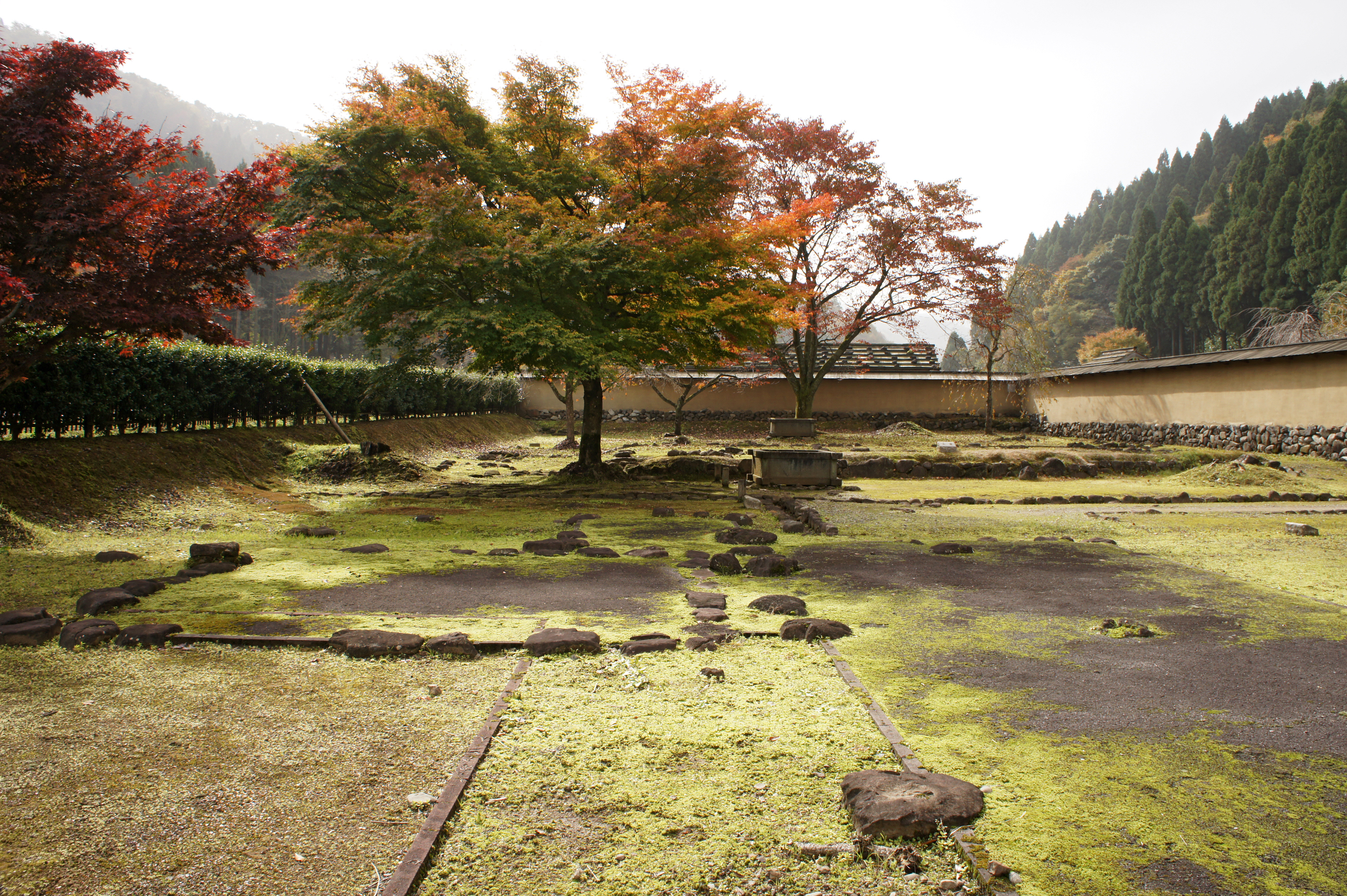 Fukugen-machinami of Ichijōdani Asakura Family Historic Ruins in Fukui, Fukui prefecture, Japan.